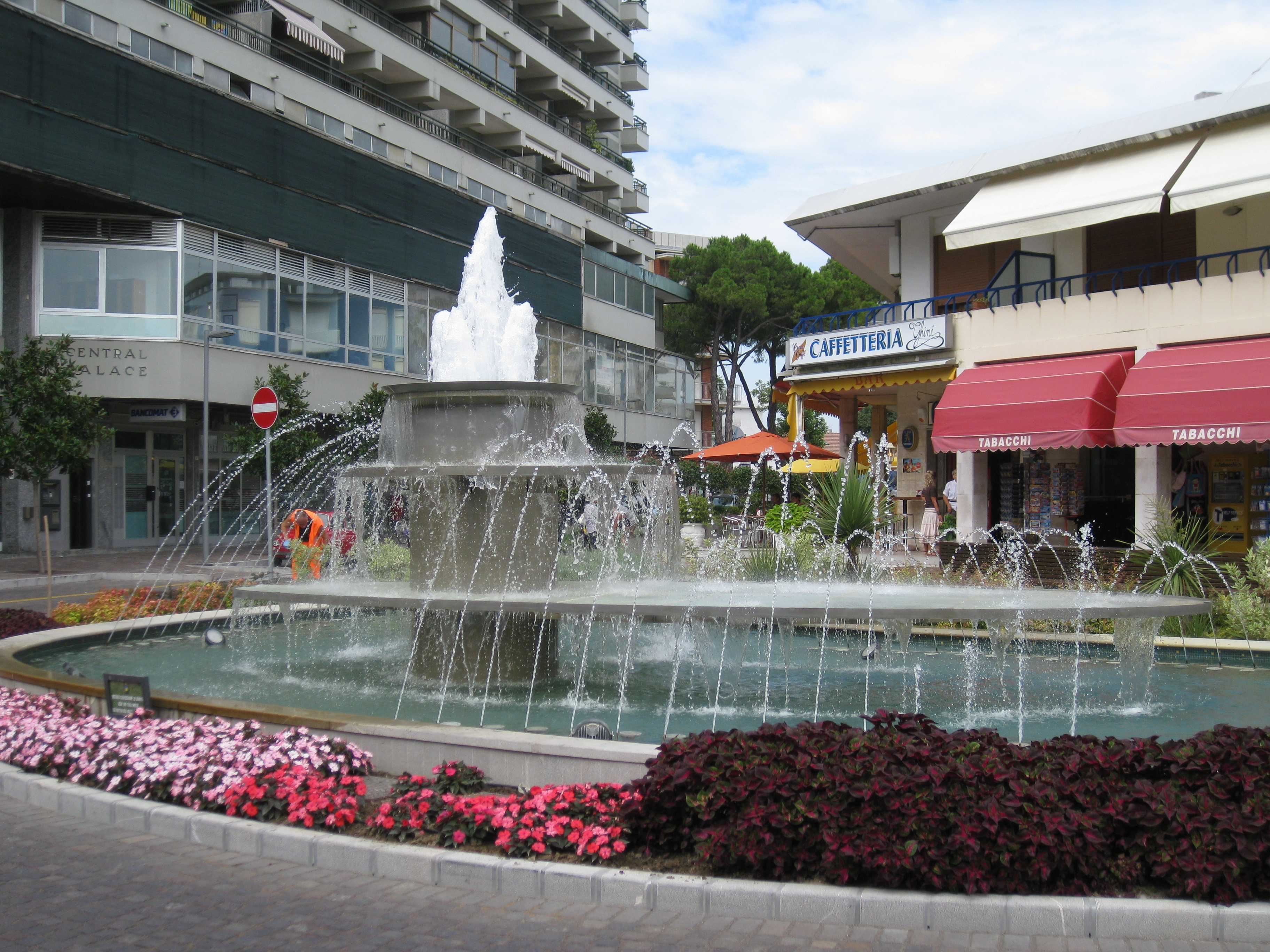 Fountain of Viale Gorizia